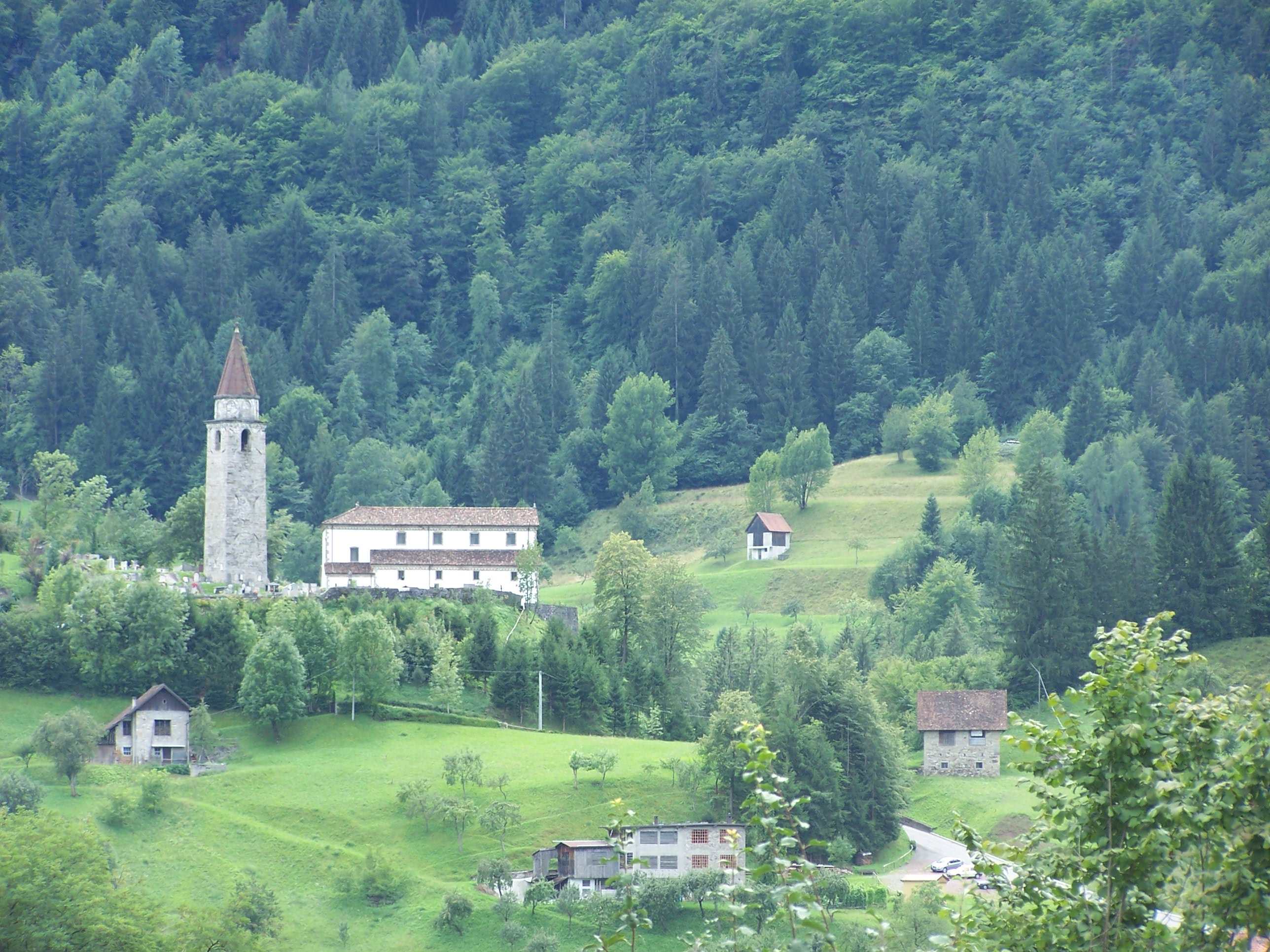 The pieve of Guart, in Carnia, Friuli. Picture taken by fur:User:Klenje Furlan: La plêf di Guart, in Cjargne, viodude dal paîs di Davâr.